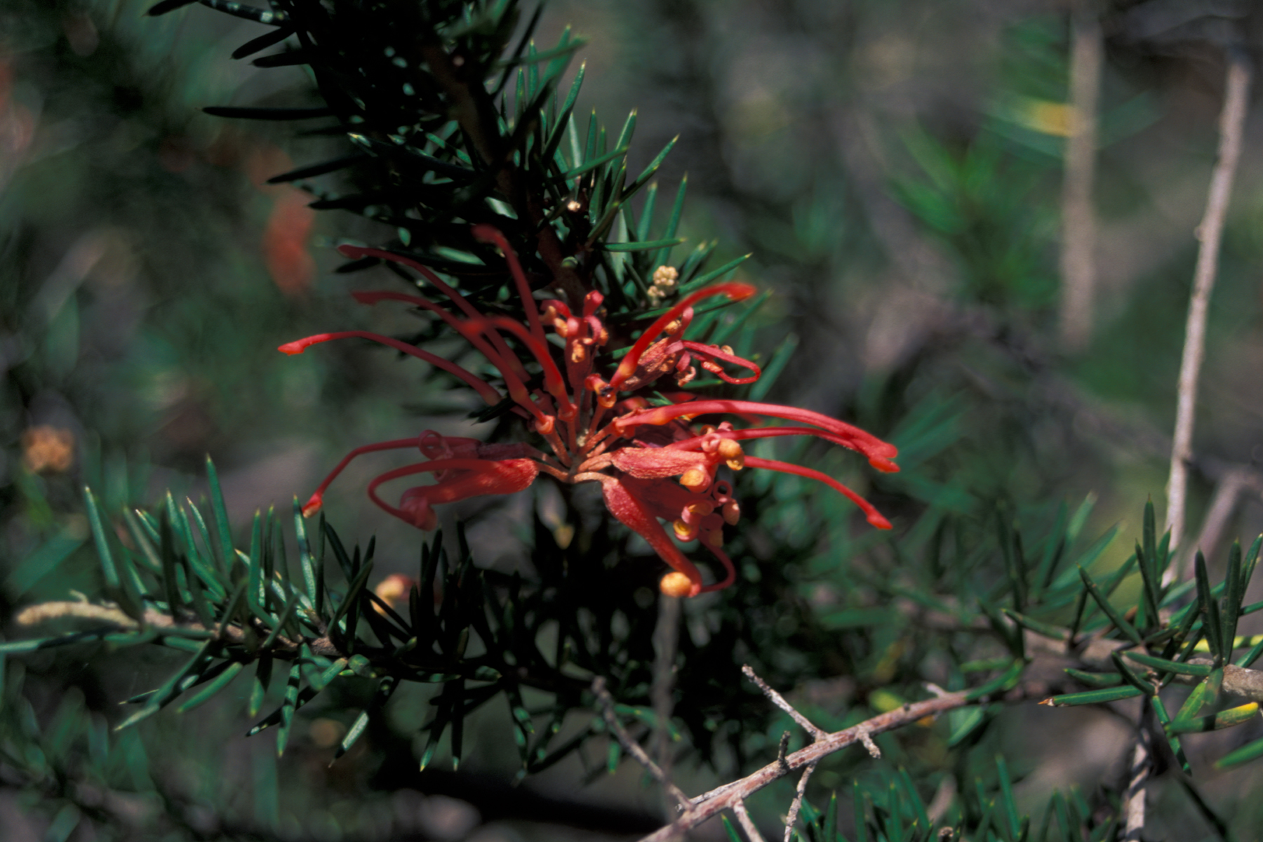 Grevillea juniperina (leaves and flower). Location: Maui, Kula Experiment Station